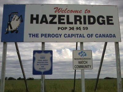 The sign for the village of Hazelridge, Manitoba, Canada